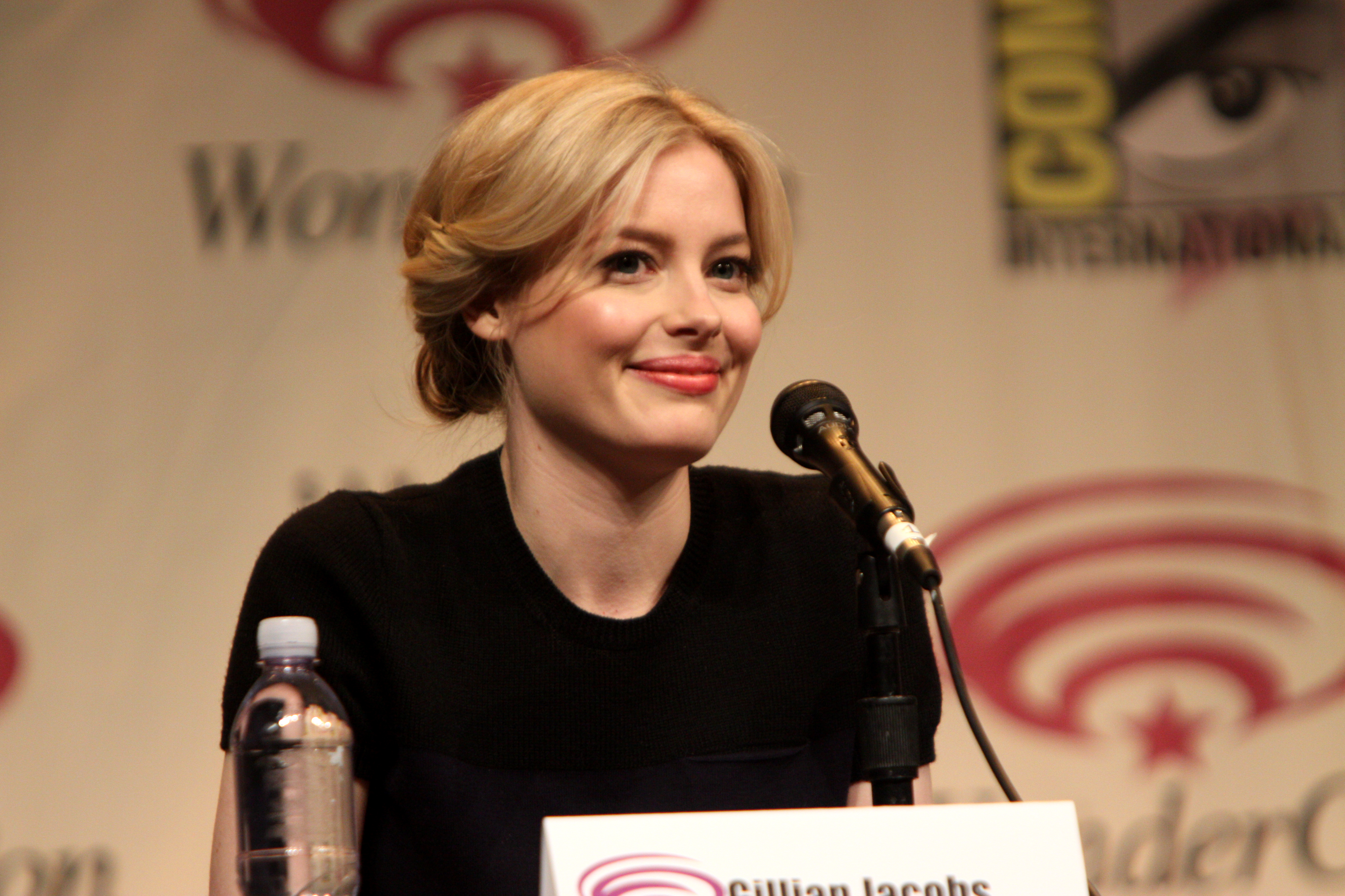 Gillian Jacobs speaking at the 2012 WonderCon in Anaheim, California.